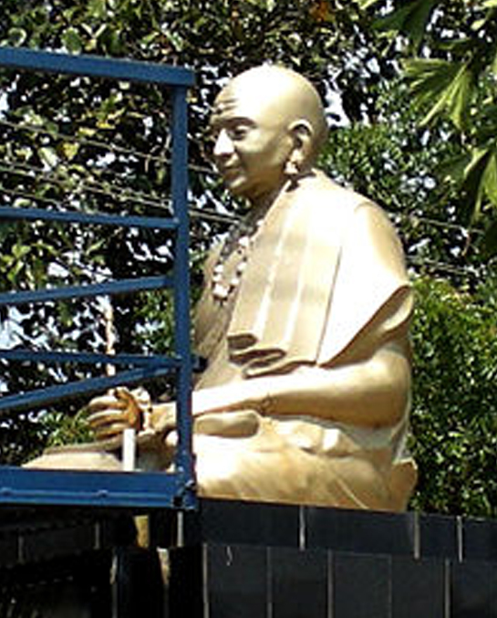 Aadikavi Nannaya Statue at Way Bridge of Gostani Canal